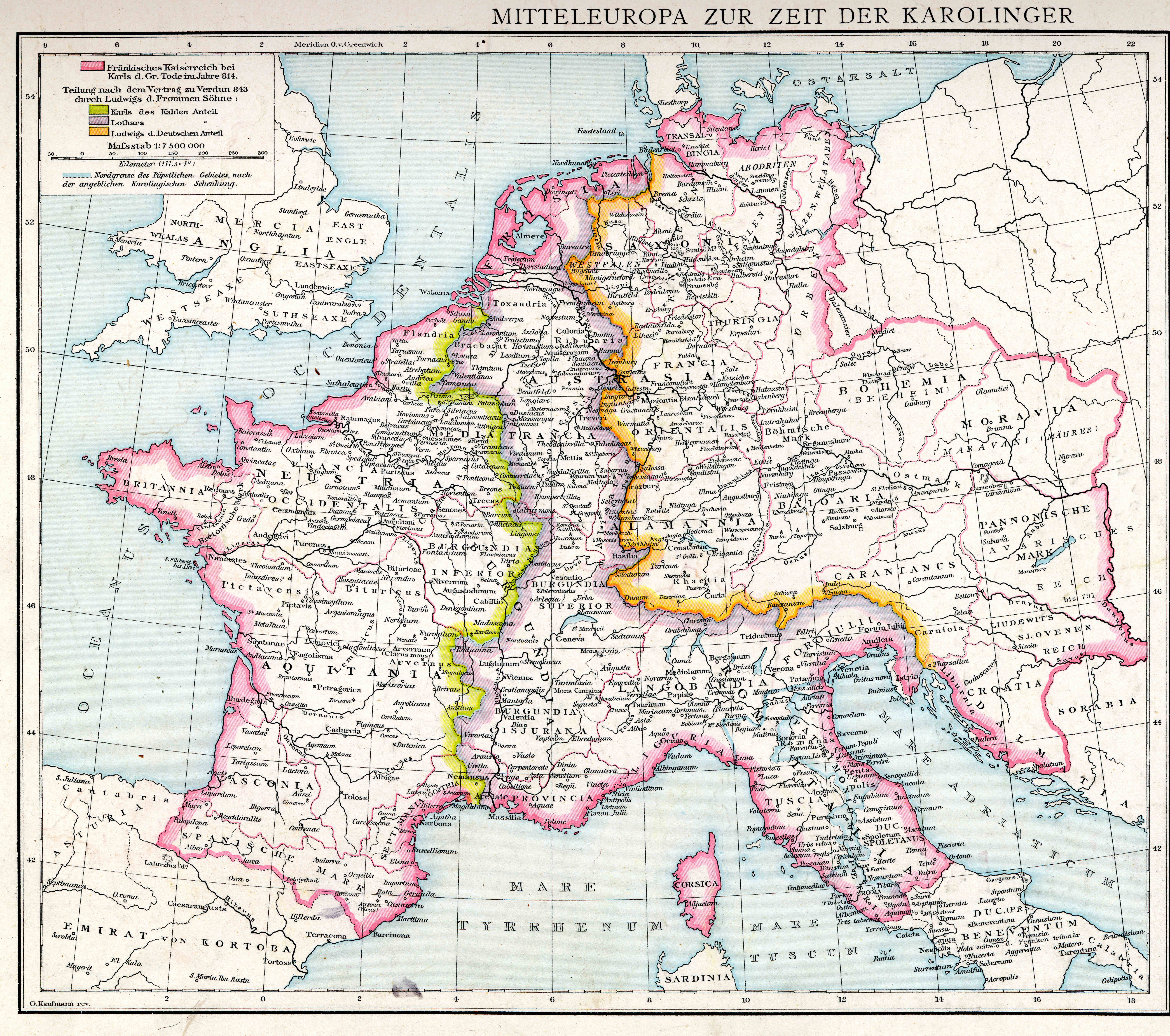 The Frankish Empire at the death of Charlemagne, in 814.